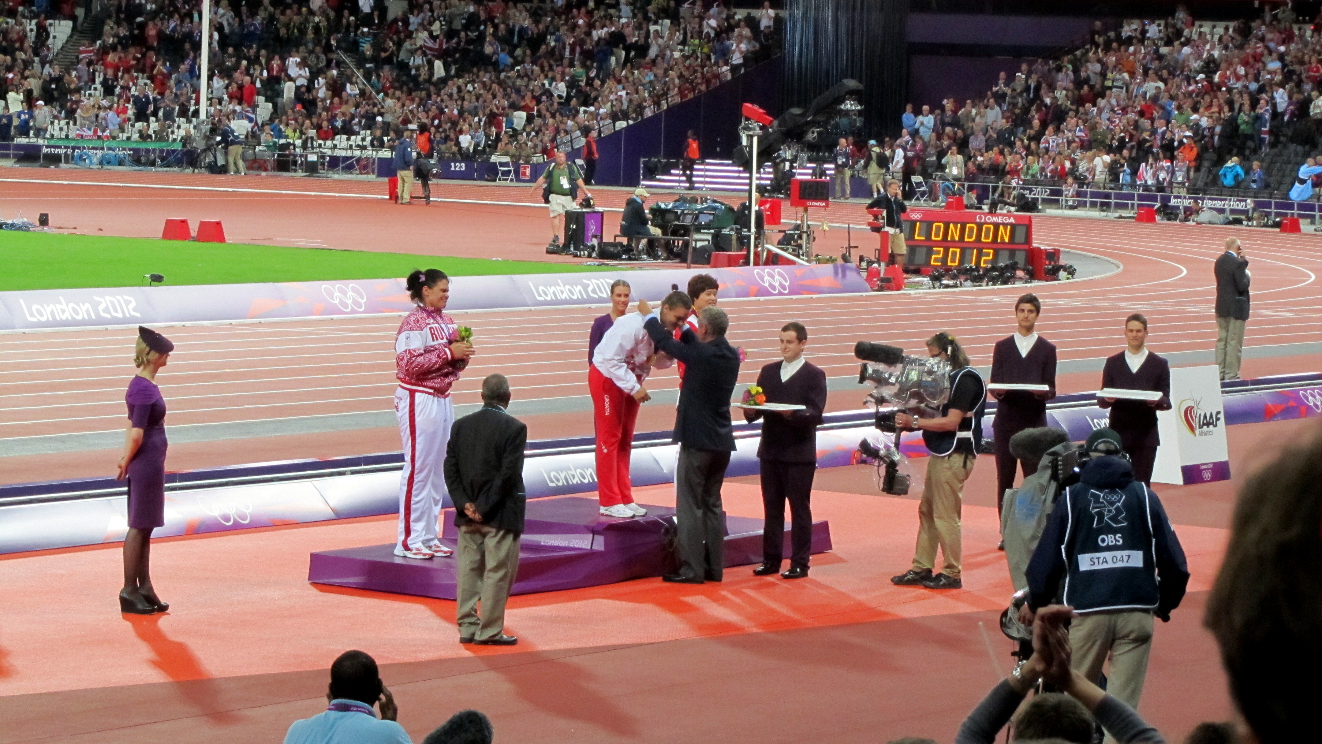 Women's Discus Throw Victory Ceremony at the 2012 Summer Olympics in London. Gold: Sandra Perković (Croatia); Silver: Darya Pishchalnikova (Russia); Bronze: Li Yanfeng (China).